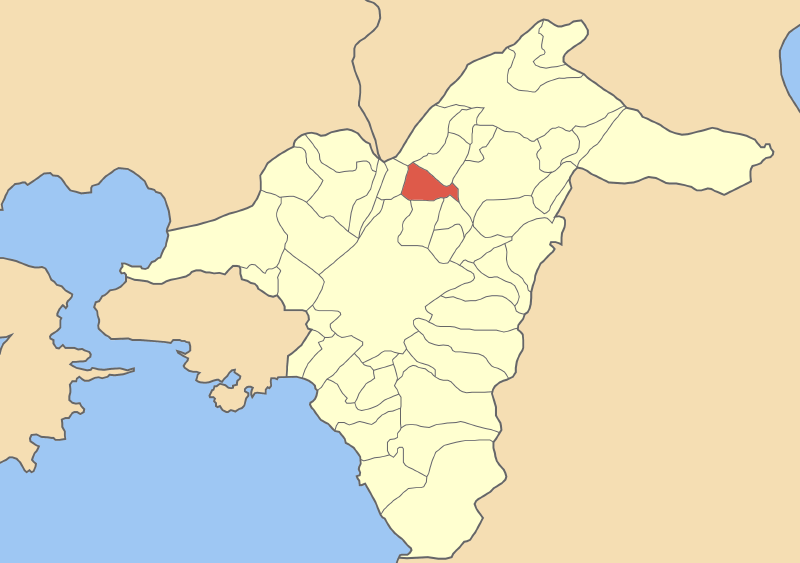 Locator map of Nea Ionia municipality (Δήμος Νέας Ιωνίας) in Athina Nomarchia (Νομαρχία Αθηνών) in Greece.